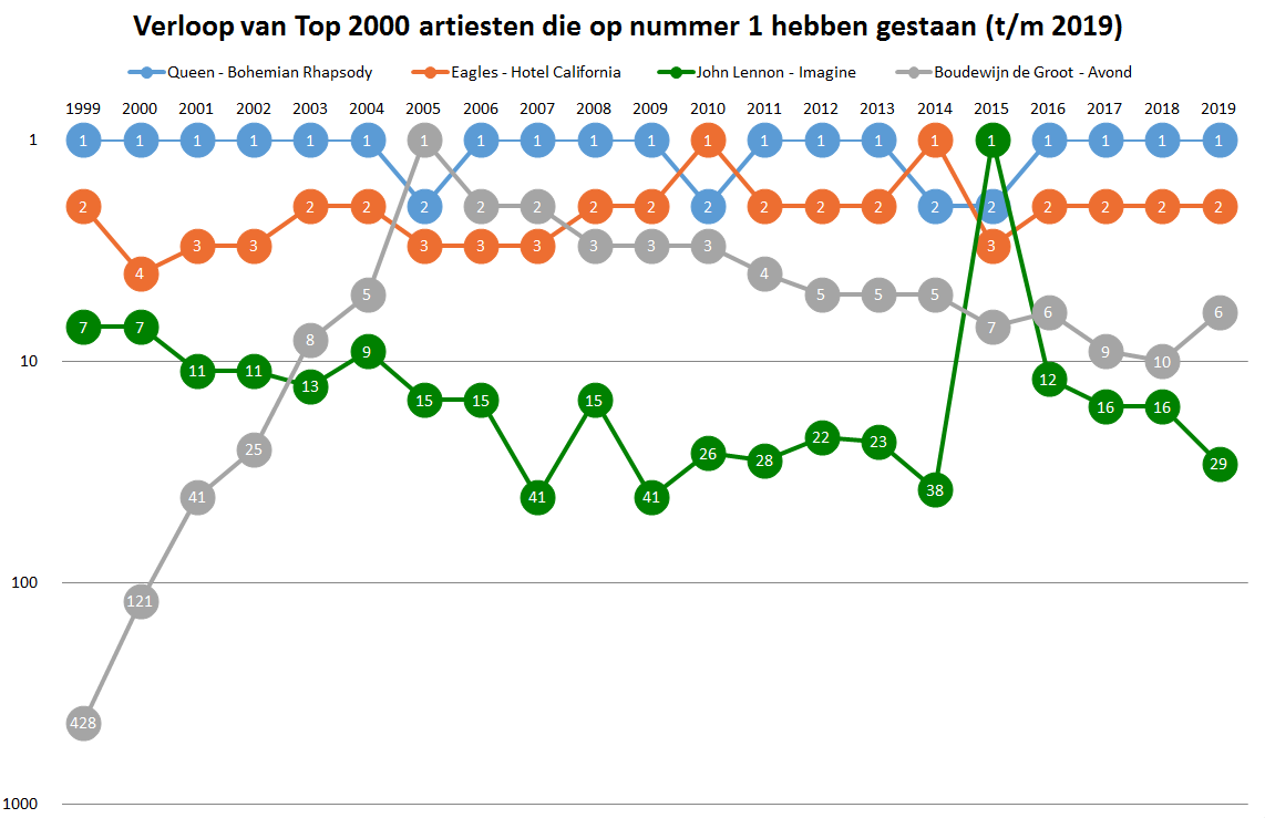 Graph of the positions in time of the songs that were at least once number 1 in the Top 2000 (1999-2019). Created in the same style as the earlier (till 2017): Songs that hit nr. 1 in 19 years of The Netherland's Top-2000's.png